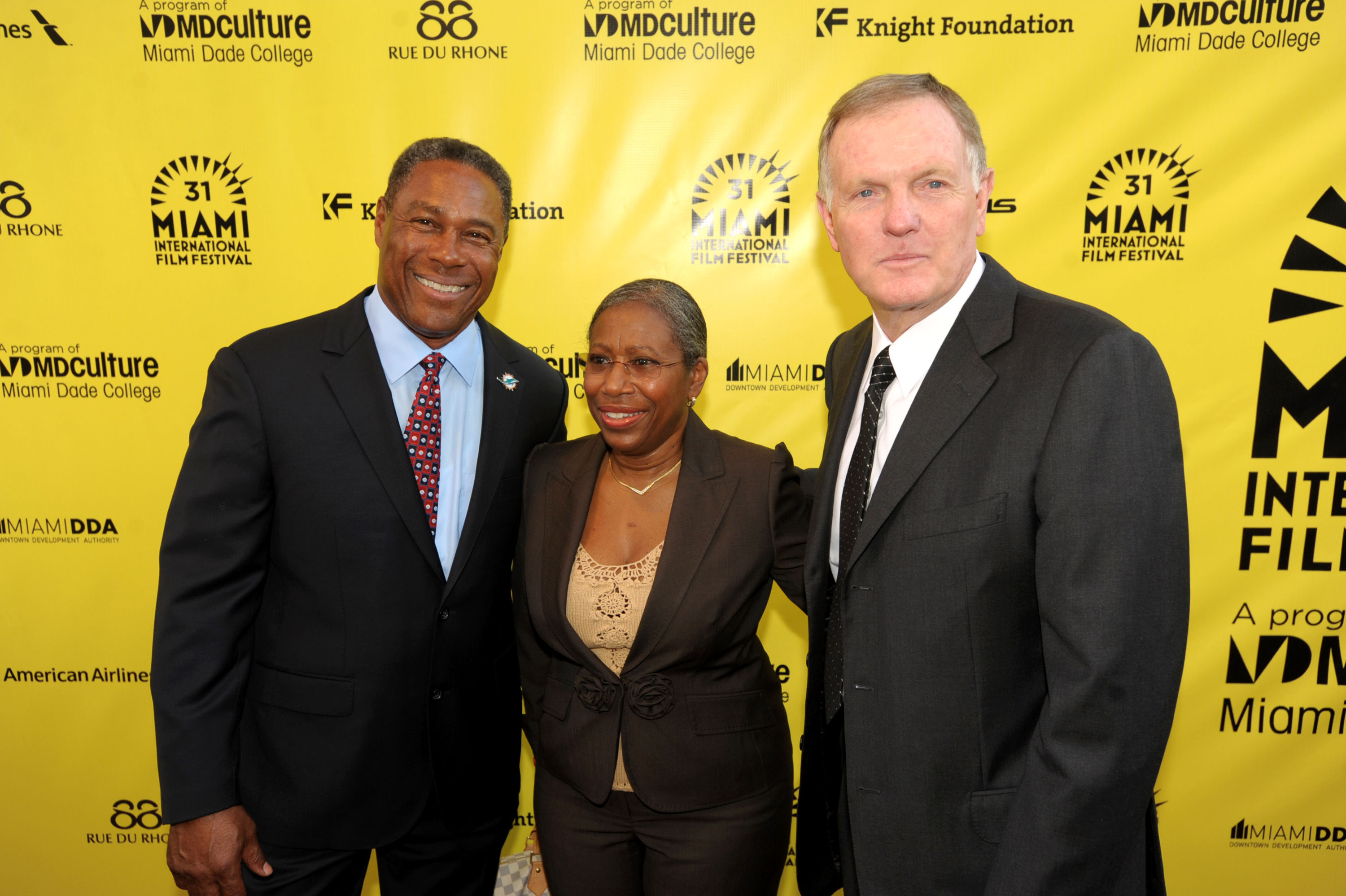 Nat Moore, guest & Bob Griese at the 2014 Miami International Film Festival presentation of "An Unbreakable bond" Photo by: World Red Eye